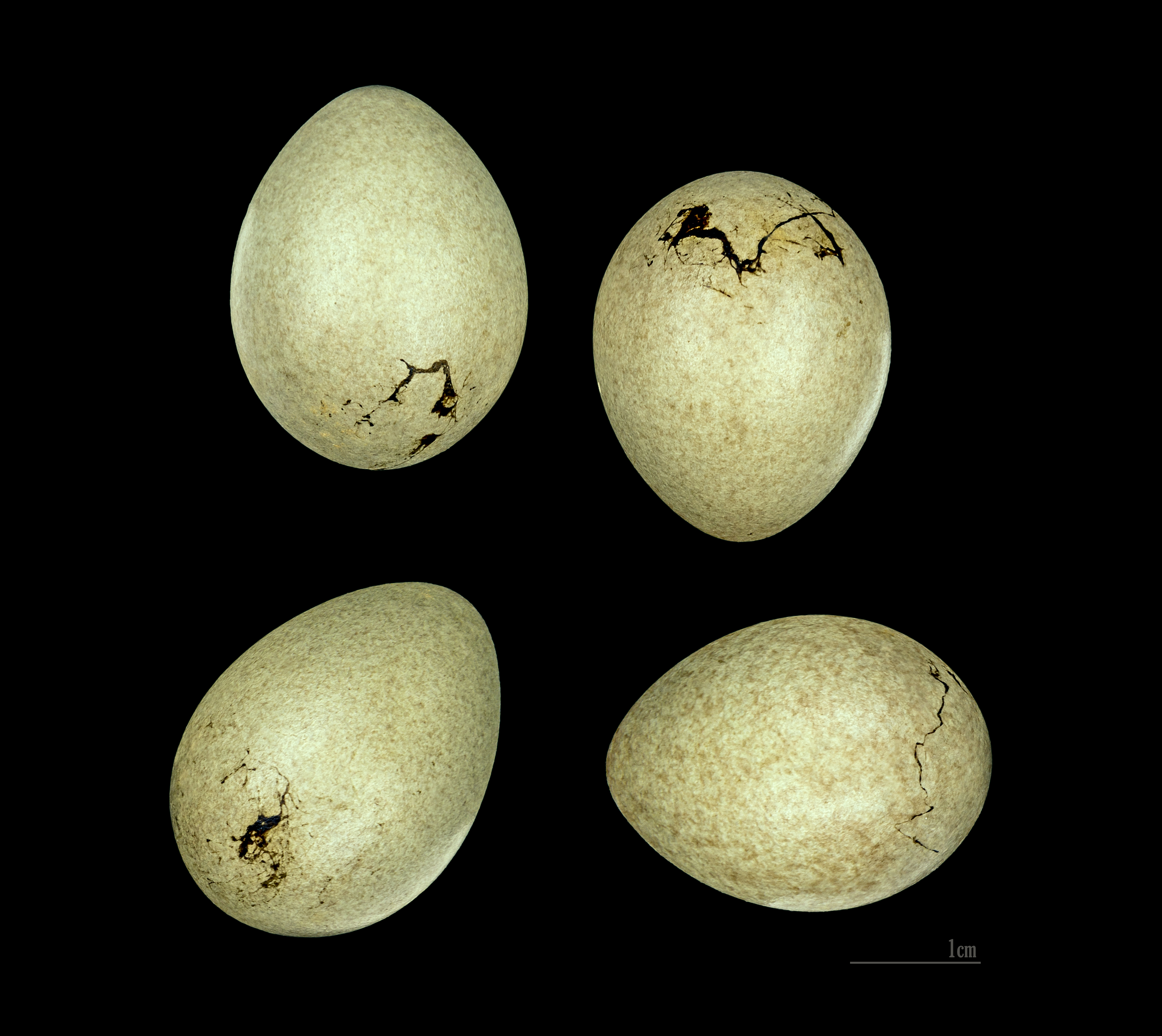 Egg of Eurasian Jay. Collection of Jacques Perrin de Brichambaut.